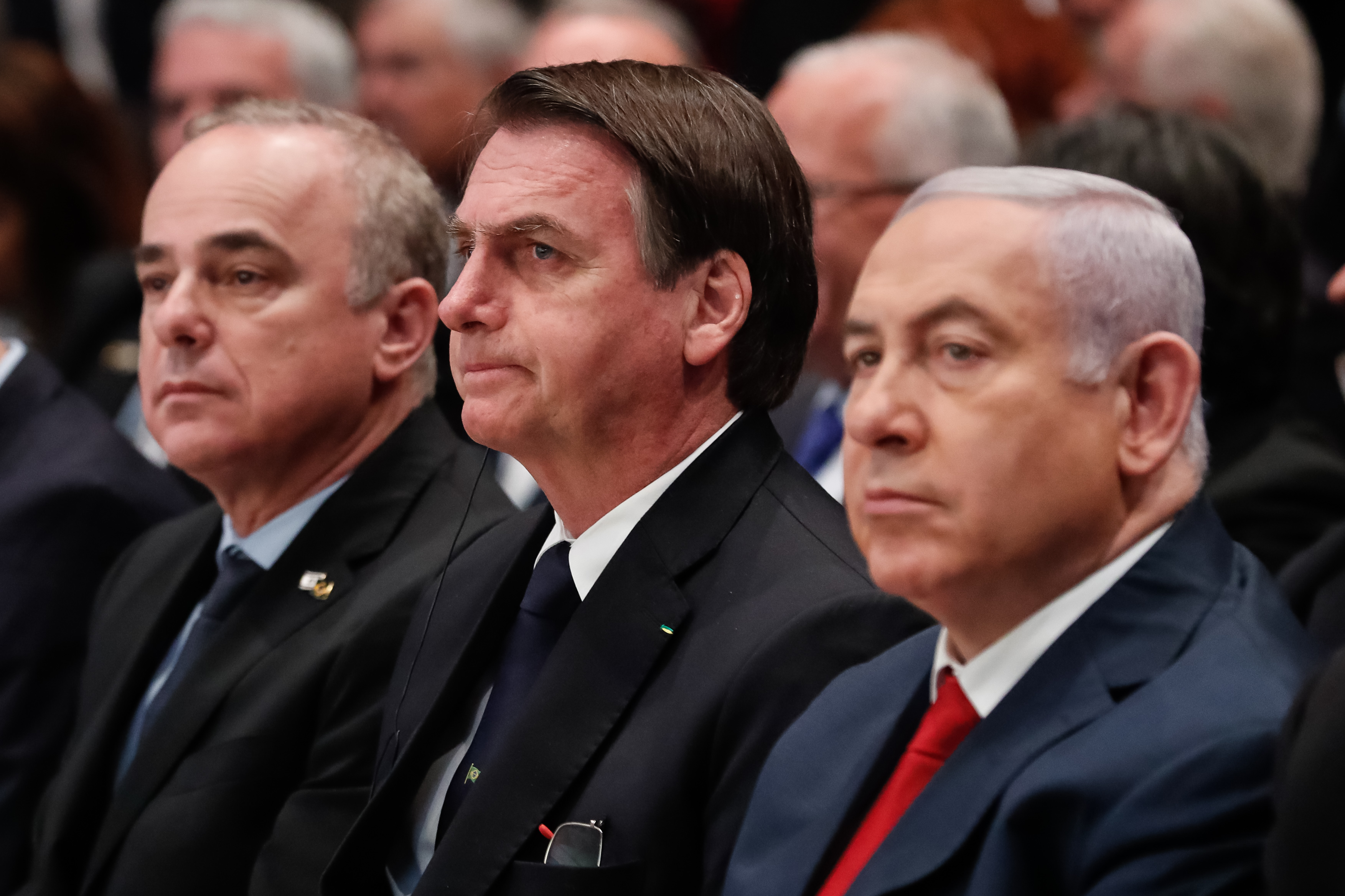 Jair Bolsonaro visit to Israel, opening ceremony of the Trade mission Brazil-Israel, April 2 ,2019